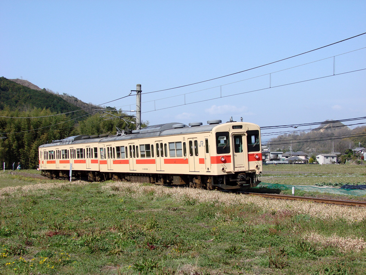 West Japan Railway Series 105